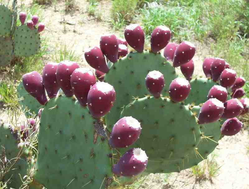 belongs to the cactaceae's family. preacle pears in the spring